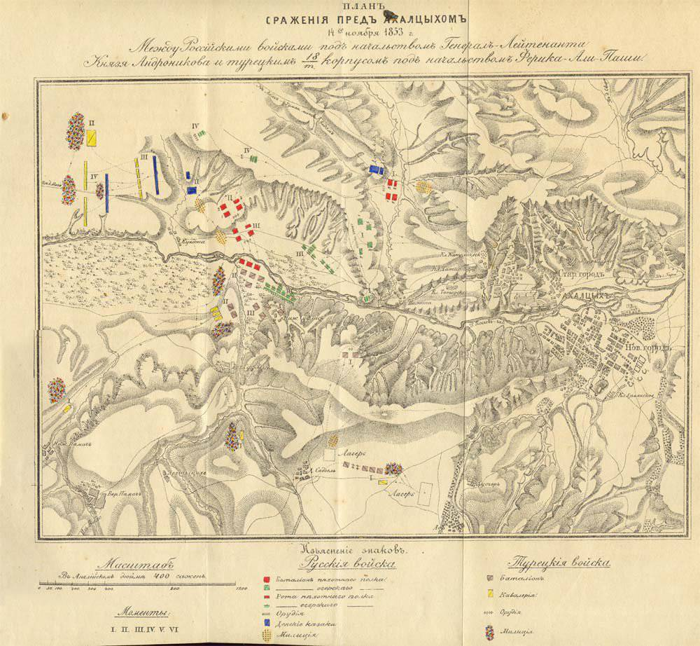 Map of the Battle at Akhaltsikhe in 1853. An illustration from the M. I. Bogdanovich's Eastern War, 1853–1856 (in Russian, 1876)